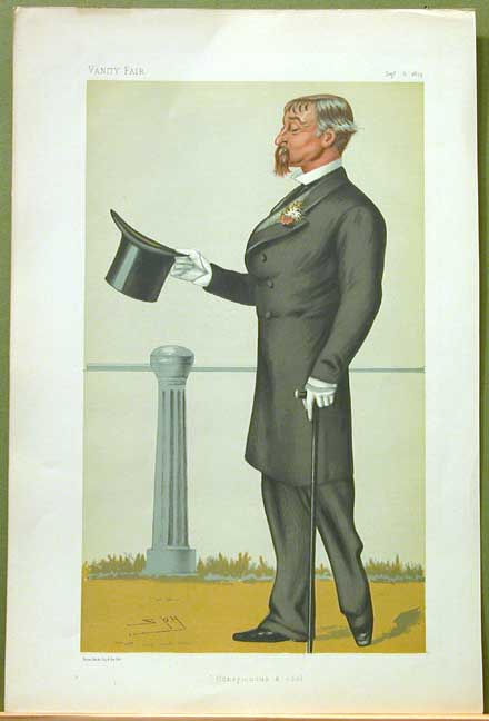 Men of the Day No.203: Caricature of Maj-Gen CC Fraser VC. Caption reads: "Conspicuous & cool"